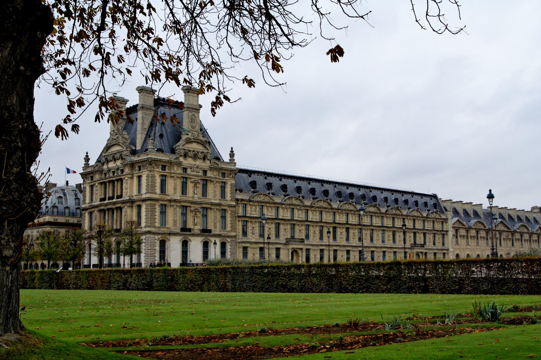 Pavillon de Marsan, Palais du Louvre